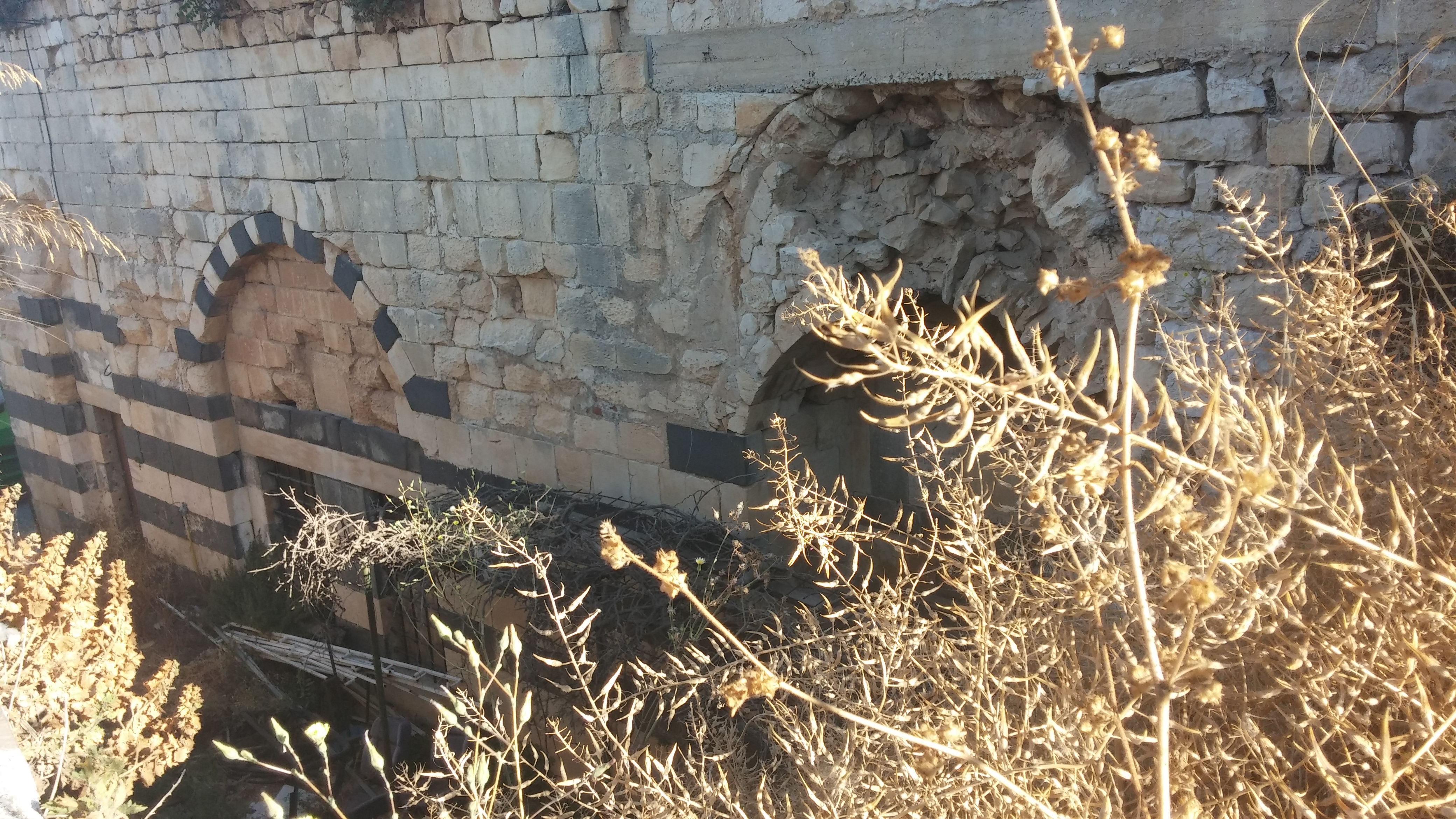 Mamluk Mausoleum in Safed